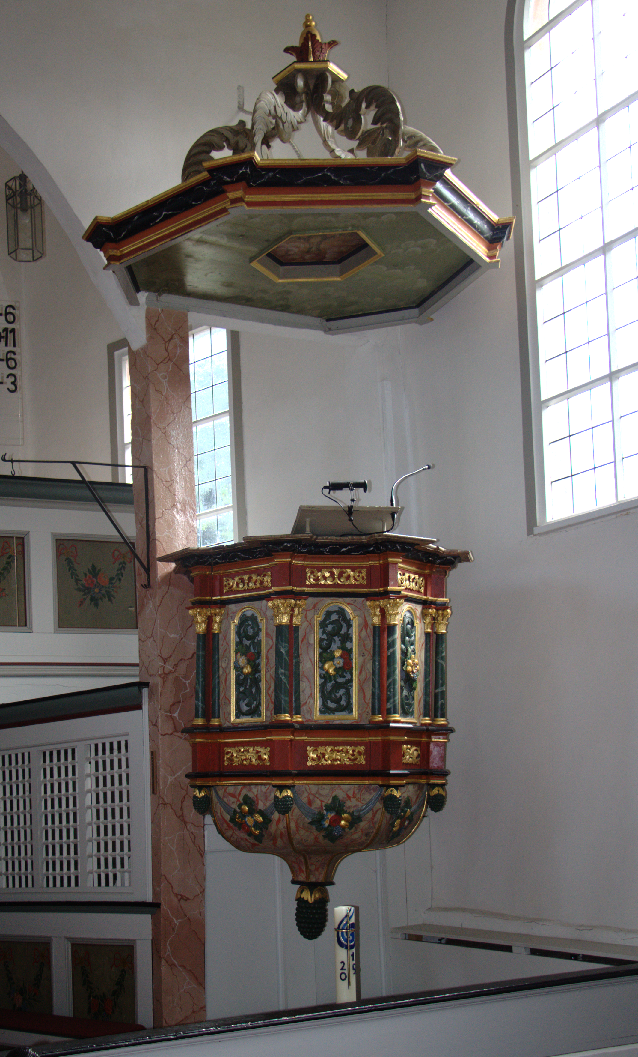 Protestant church (Detail:Pulpit) in Ulrichstein, Unter-Seibertenrod Eichwaldstrasse, Hesse, Germany